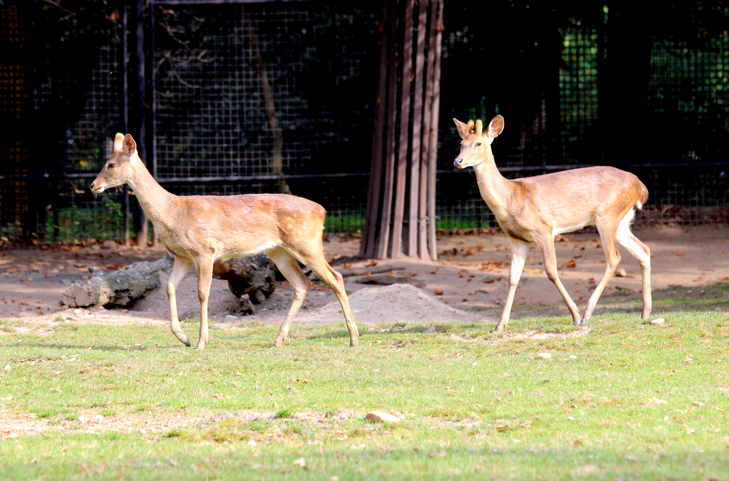 Eld's Deer (Cervus eldii) in Prague Zoo, Czech Republic